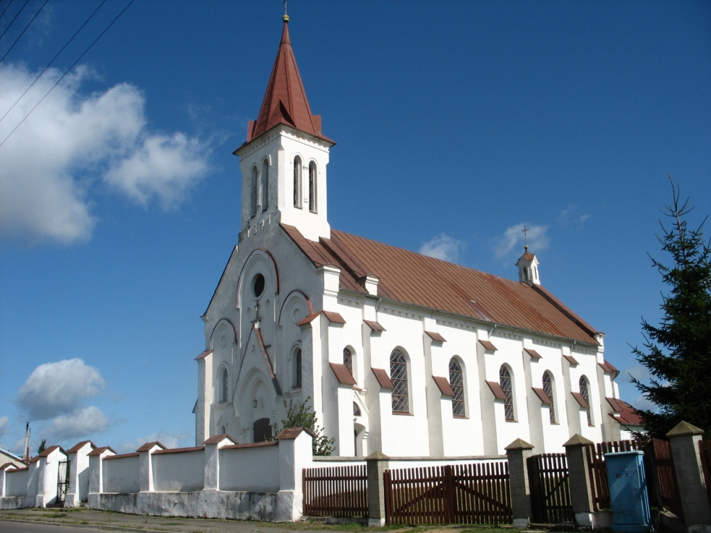 Church of Holy Trinity (Kosava), Belarus